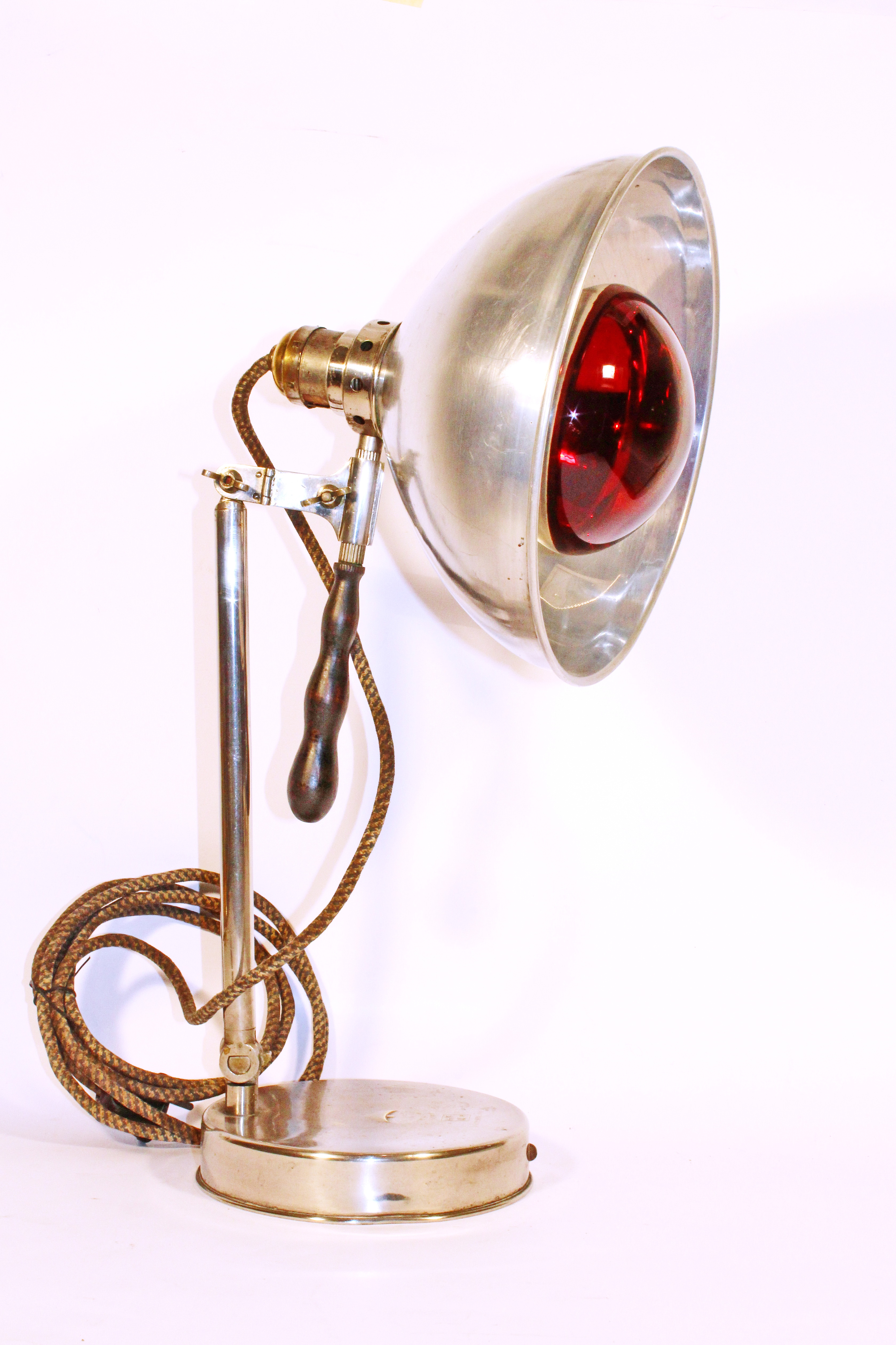 Old UV lamp. It is located in Museum of Science and Technology Belgrade.